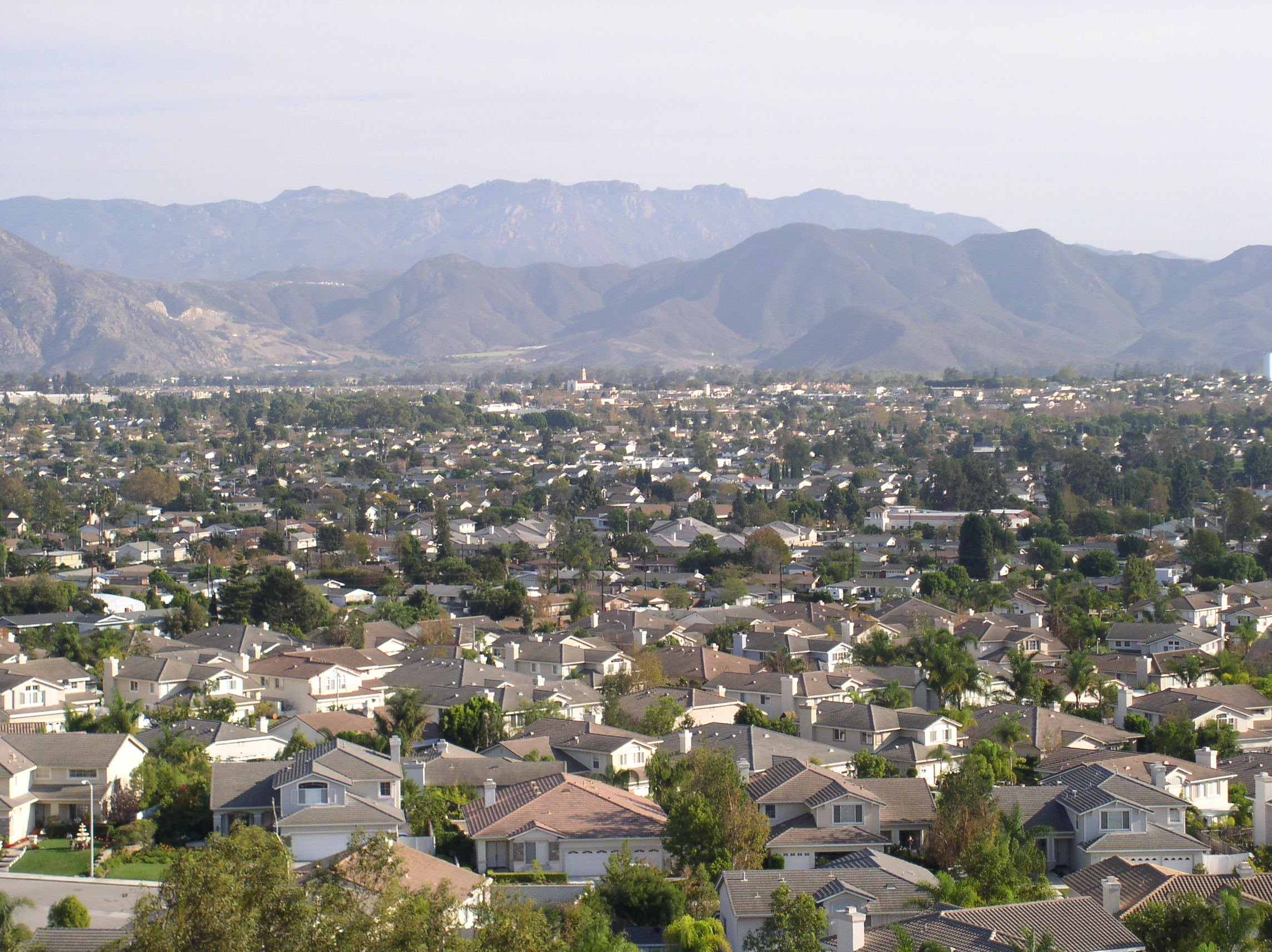 Image of Camarillo, California looking southeast taken from a hillside on the northwestern part of the city near Estaban Drive.